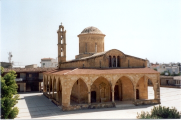 Guzelyurt church - site of St Mamas burial. Photo by User:Jeandunston